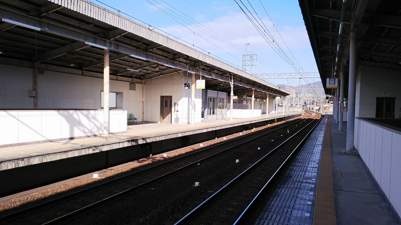 The platforms at Miyukitsuji Station in Wakayama Prefecture, Japan